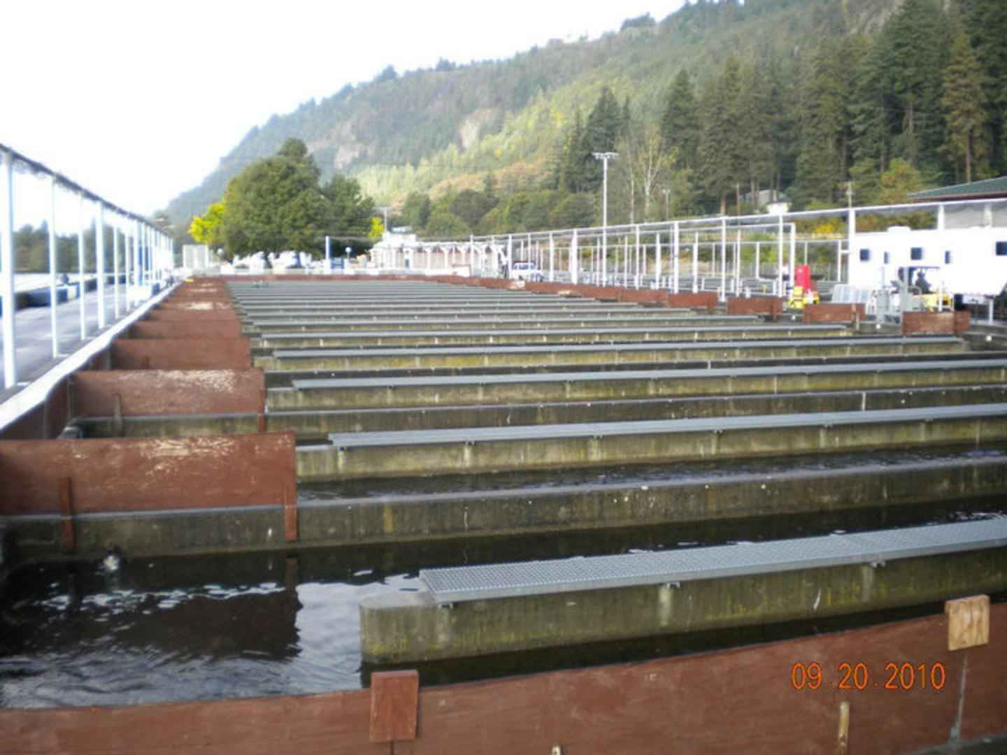 Image title: Raceways Image from Public domain images website